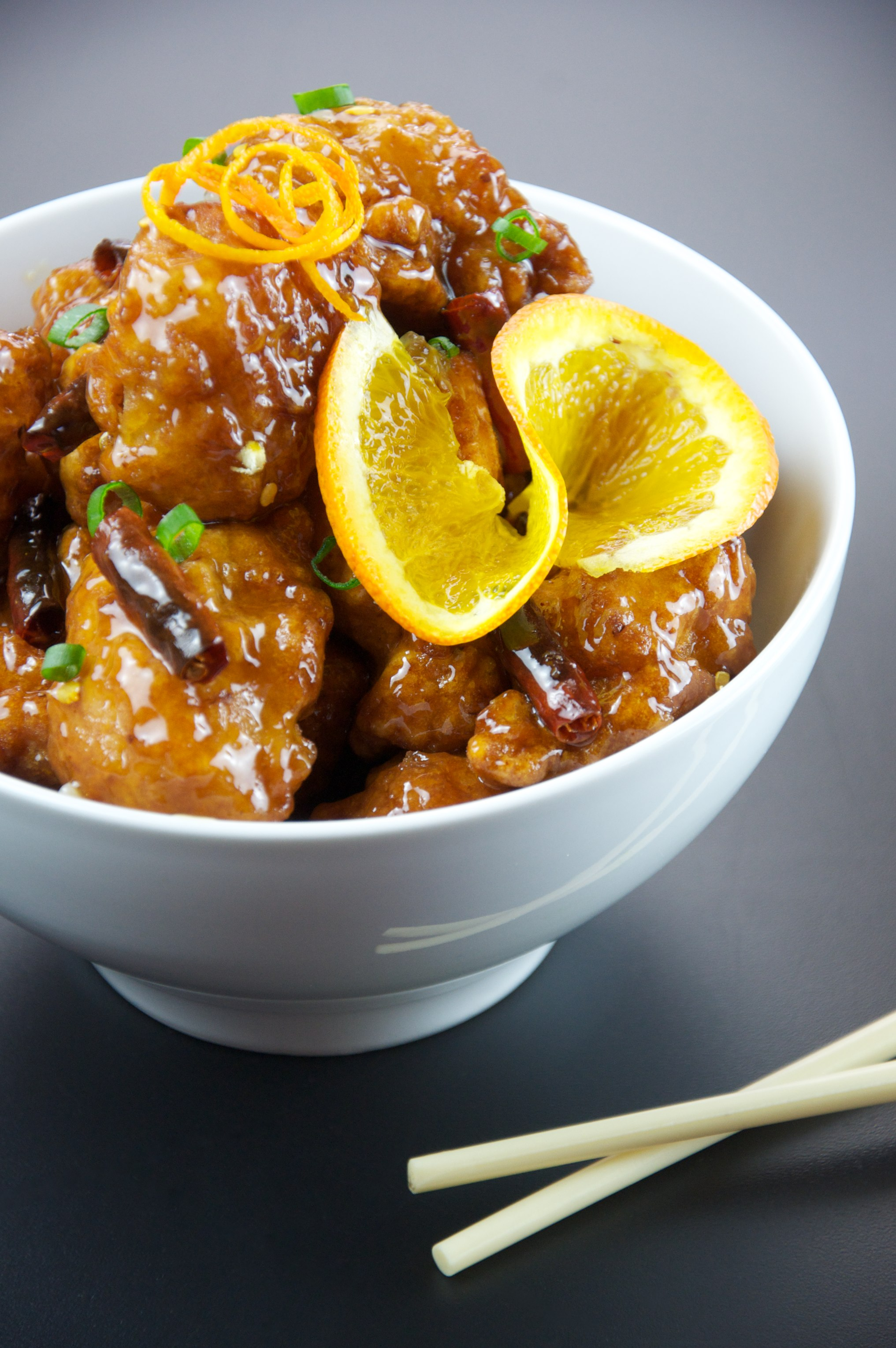 Orange chicken. Photographed in Oakland, California, USA.